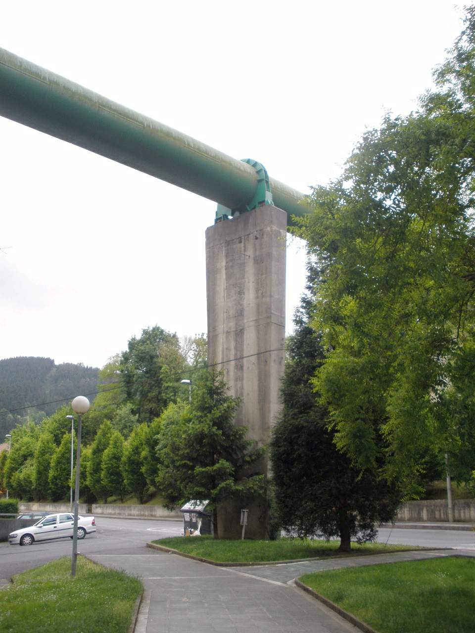 Arrigorriaga, Vizcaya